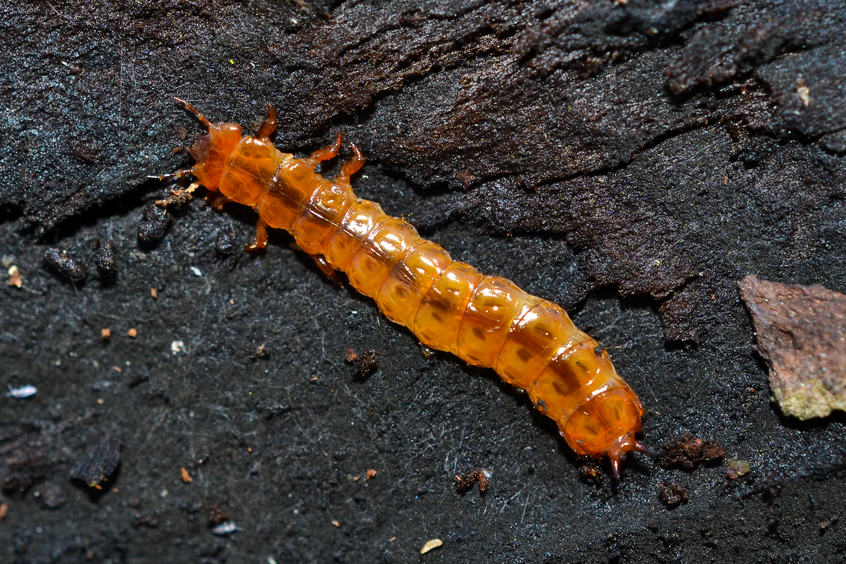 Ellis Lake Wetlands, Fairfield, Ohio